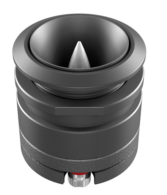 Tweeter Hertz SPL Show ST 25